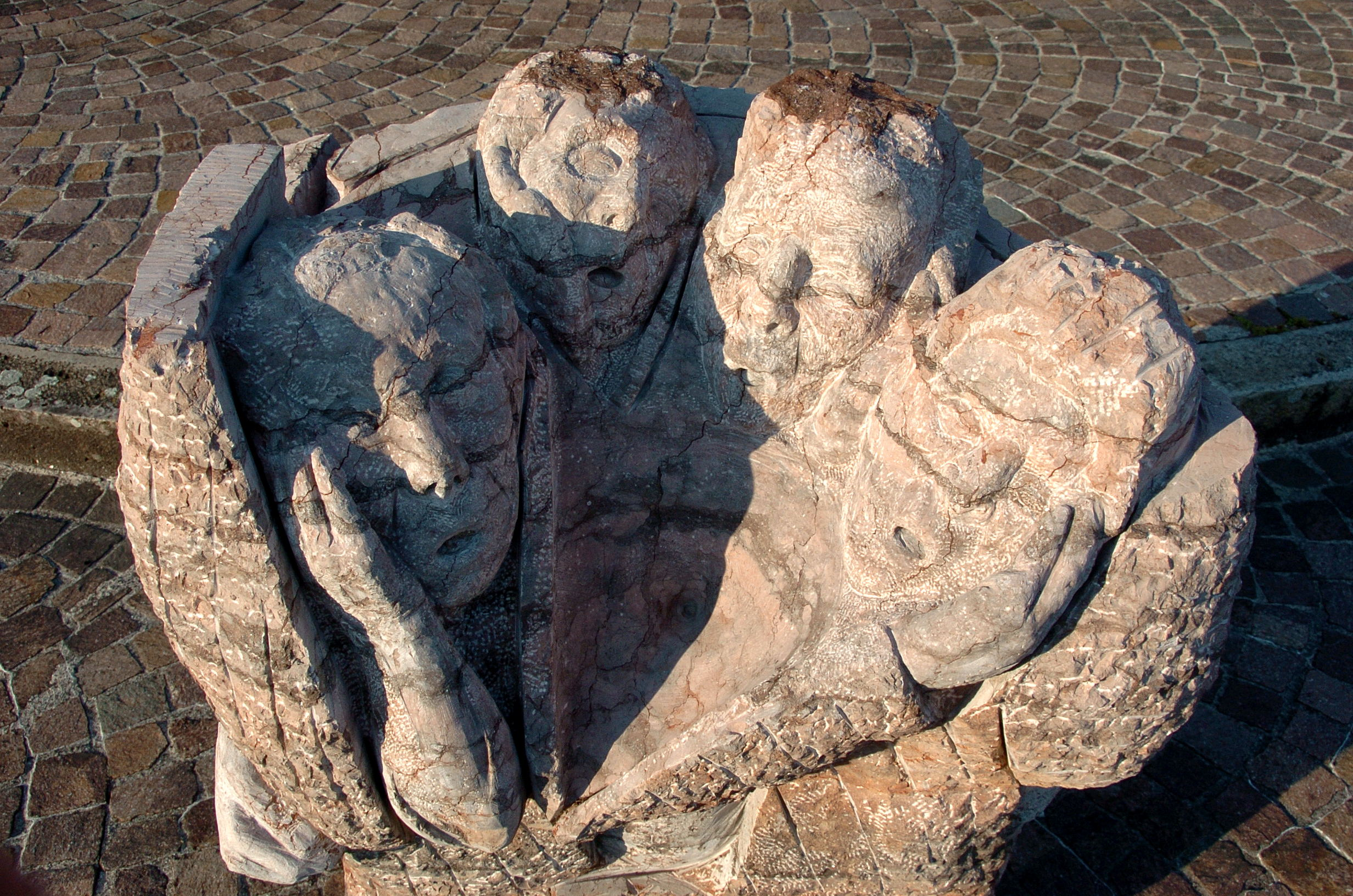 "Vortex", marble sculpture by Giuliano Mannucci, exposed in front of the municipal office at Chiaulis in the community Verzegnis, province of Udine, situated in the state Friuli-Venezia Giulia, Italy